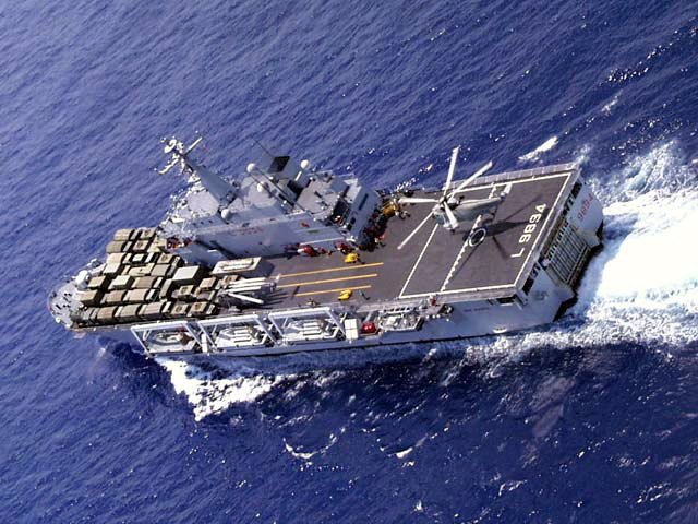 ITS SAN GIUSTO at sea